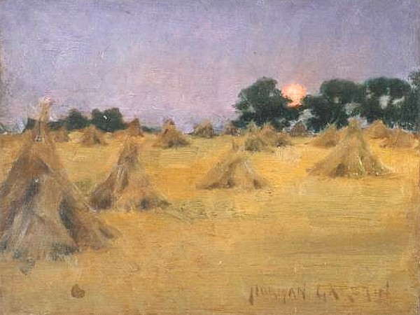 Haycocks And Sun